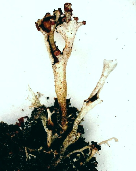 Cladonia gracilis subsp. turbinata (Ach.) Ahti, 1980 (photograph of a herbarium specimen) Growing on soil in Cladina barrens, 2.2 miles W from the University of Michigan Biological Station; collected and identified by Richard E. Riefner as Cladonia gracilis (L.) Willd. (No. 81-218, 23 Jun 1981); specimen is now in the Lichen Herbarium of the New York Botanical Garden.